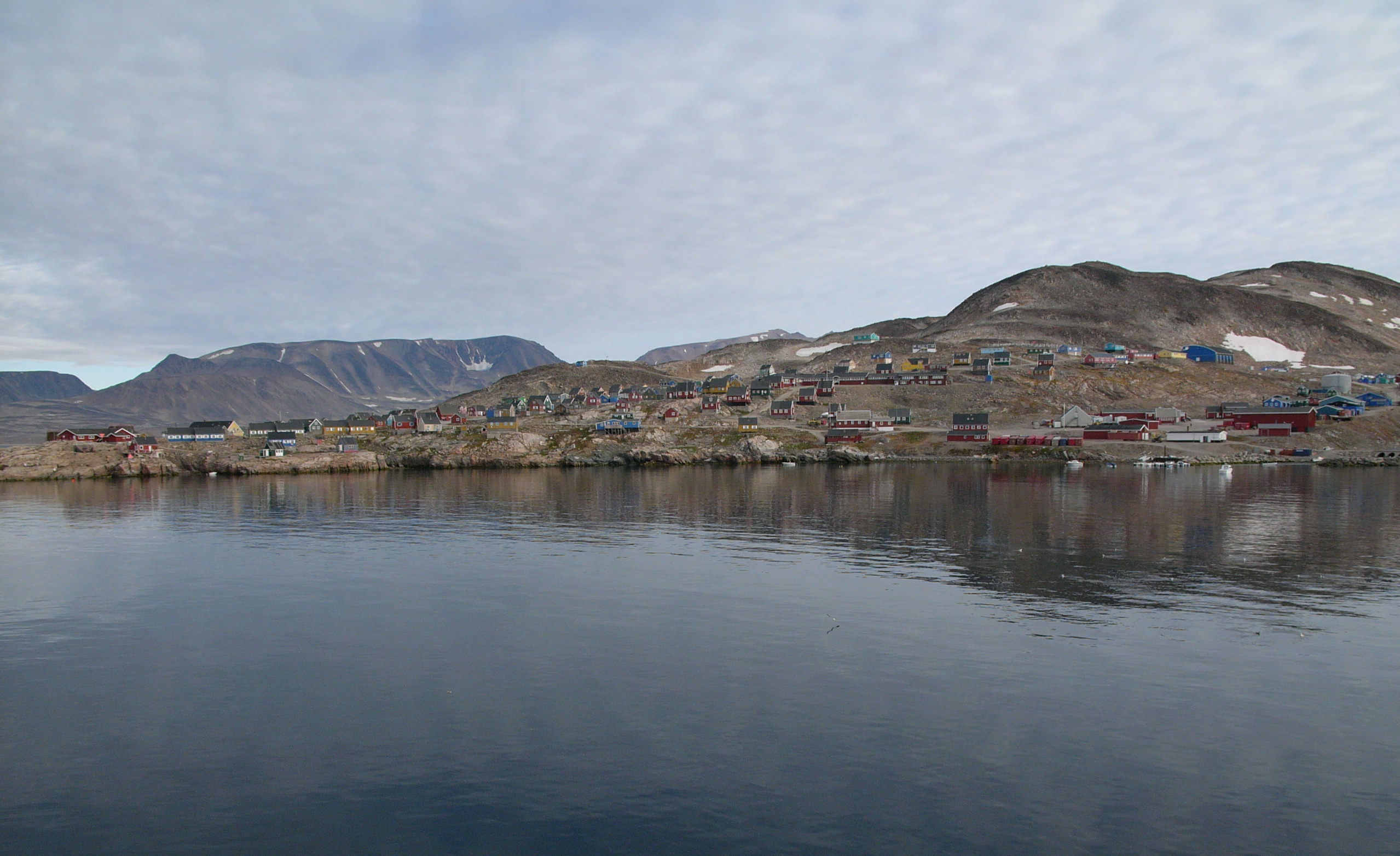 View of Ittoqqortoormiit, Scoresby Sund, East Greenland